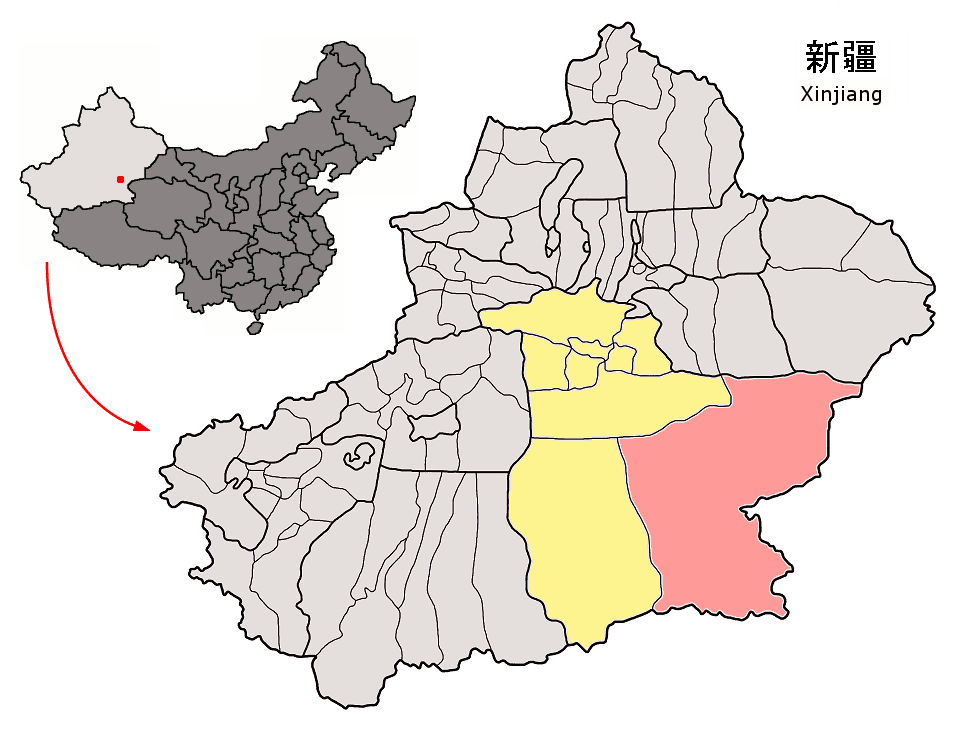 Location of Ruoqiang County (pink) and Bayin'gholin Prefecture (yellow) within Xinjiang autonomous region of China Map drawn in september 2007 using various sources, mainly : Xinjiang Uygur autonomous region administrative regions GIS data: 1:1M, County level, 1990 Xinjiang Counties map from